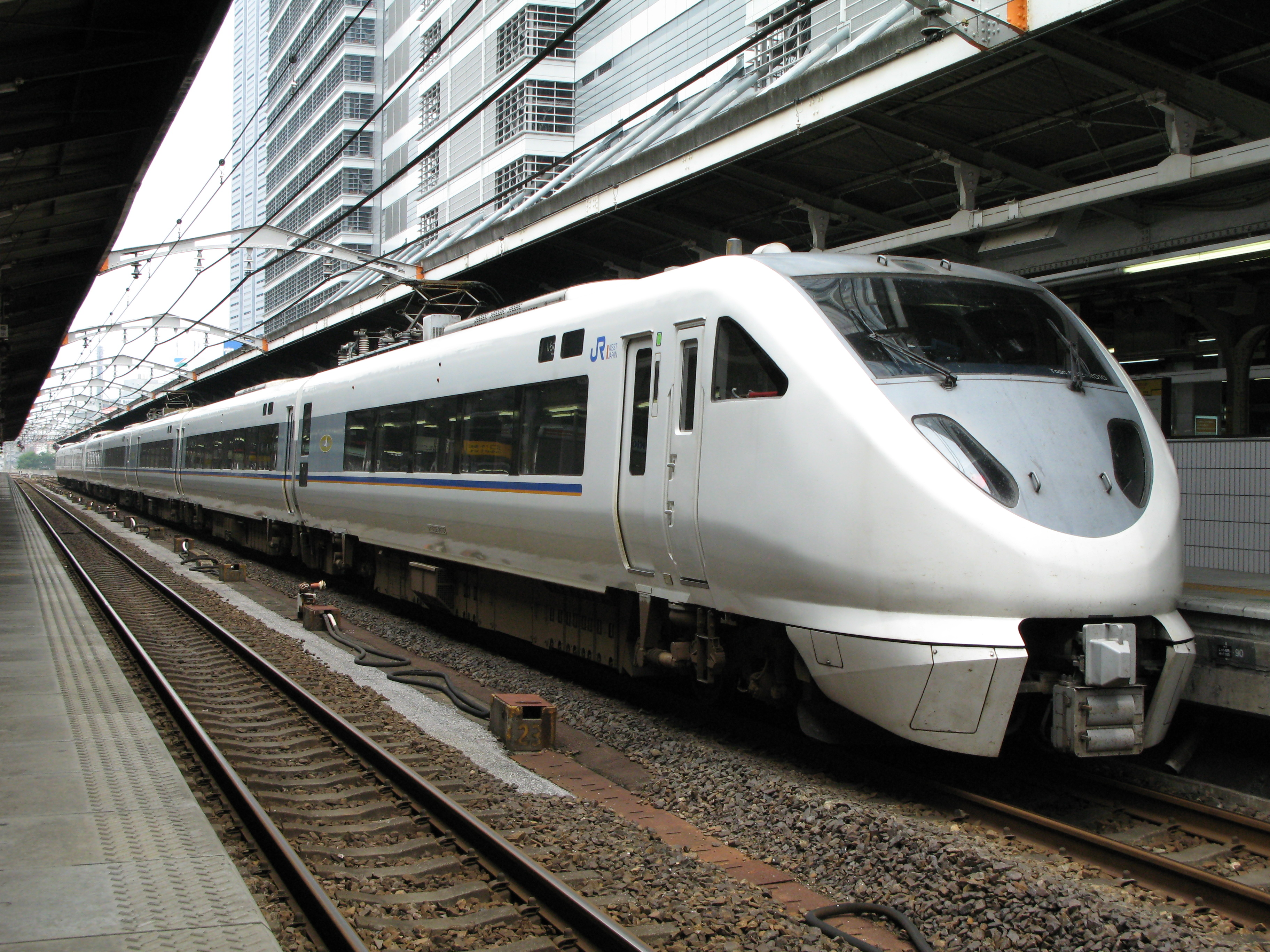 A JR West 683-2000 series EMU at Nagoya Station